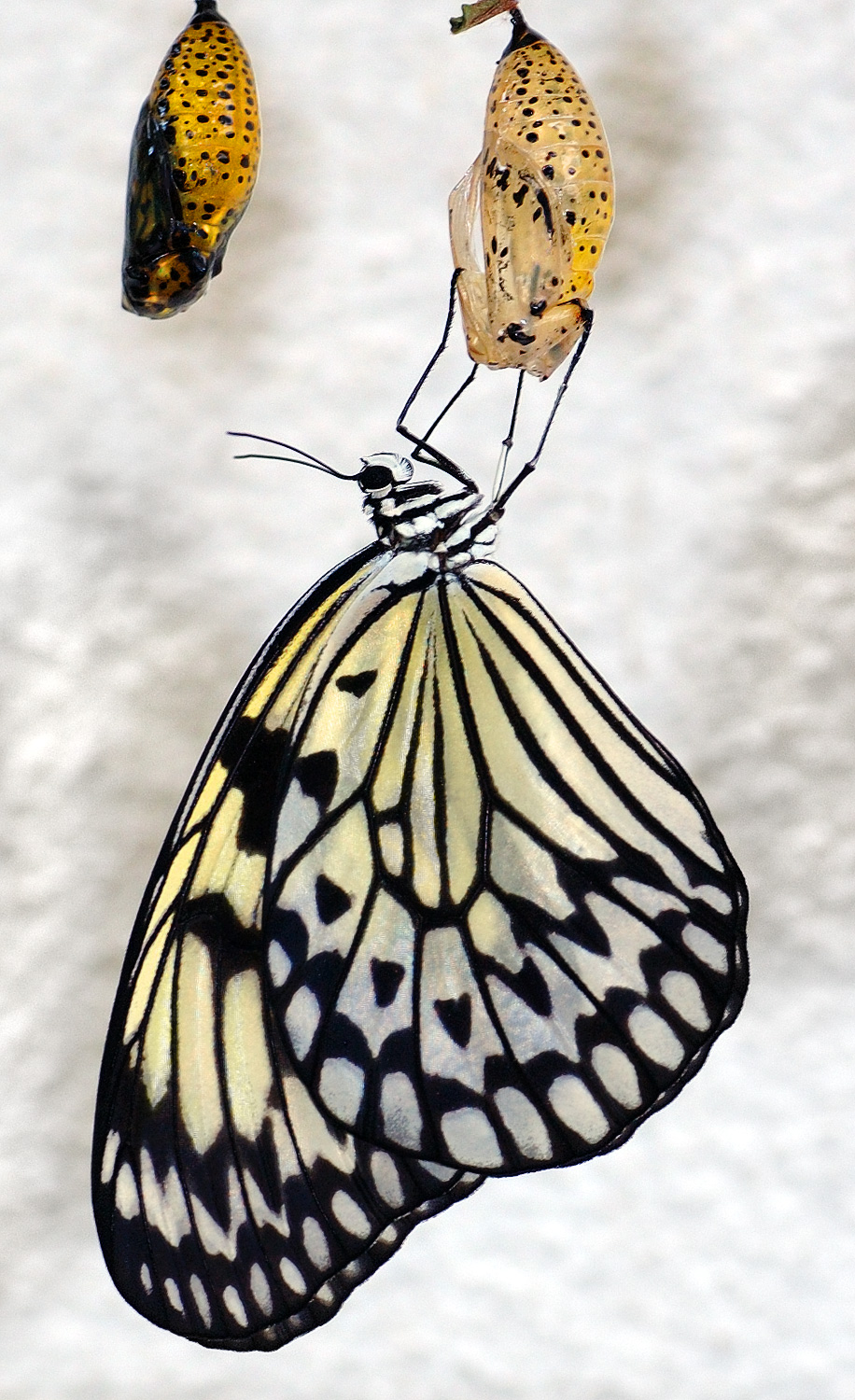 This image shows a hatching butterfly of the species Idea leuconoe. This image has been taken in the Butterfly House at the island Mainau.